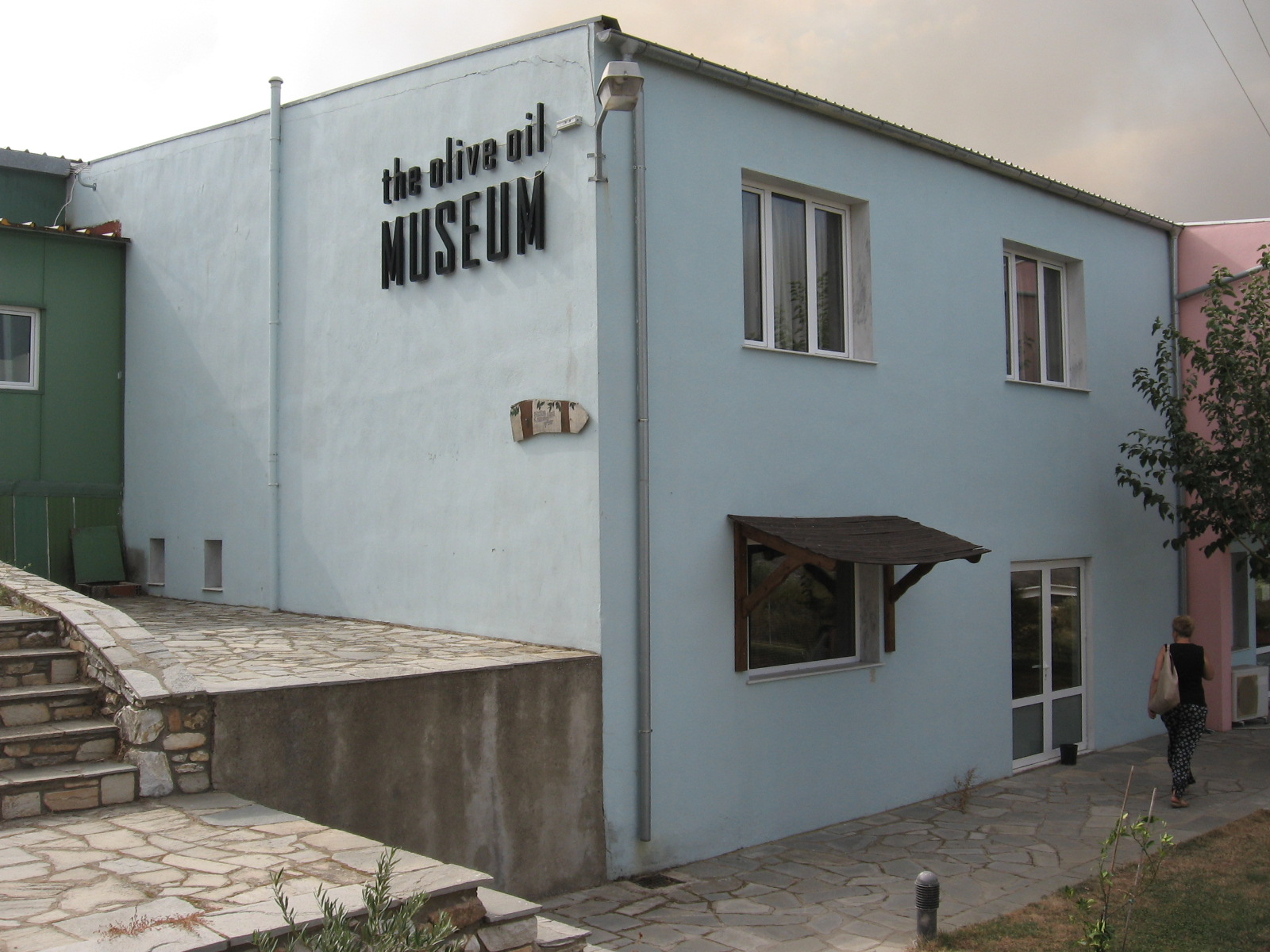 Museum of olive Prinos